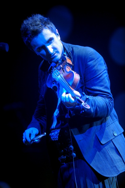 Sebastian Karpiel Bułecka